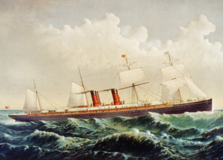 Currier & Ives portrait of the steamer SS Oregon (Guion Line then Cunard Line)